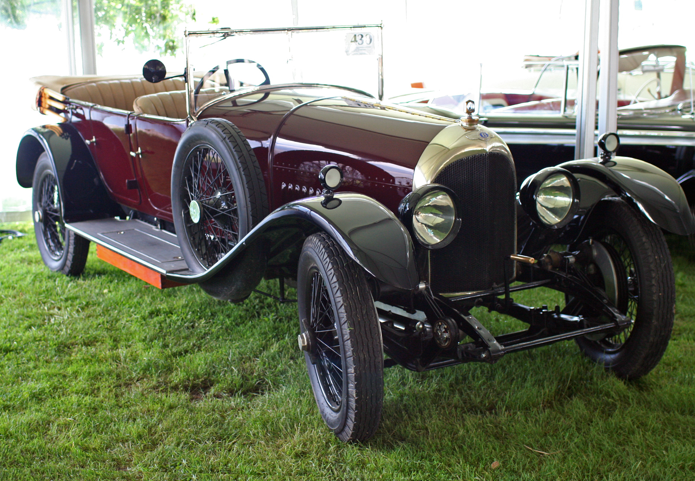 1924 Bentley 3-litre Sports Tourer by Park Ward, chassis number 792, engine number 801. Registration NR5212Up for sale at the June 3, 2012 Bonham's Auction at the Greenwich Concours d'Elegance.